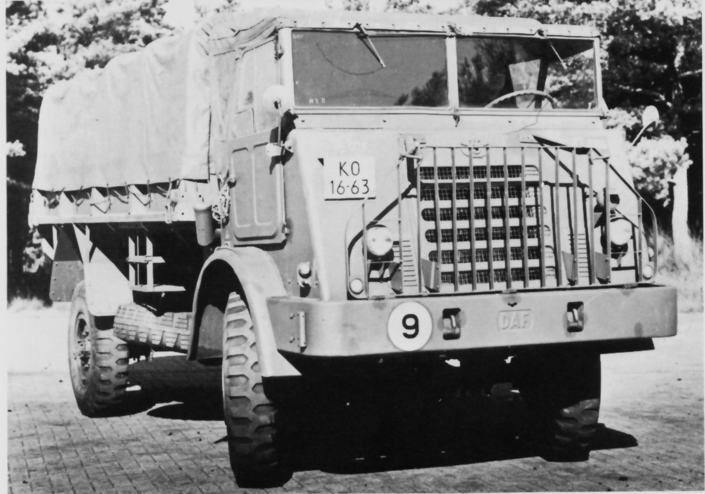 3 tons DAF YA-314 military truck.